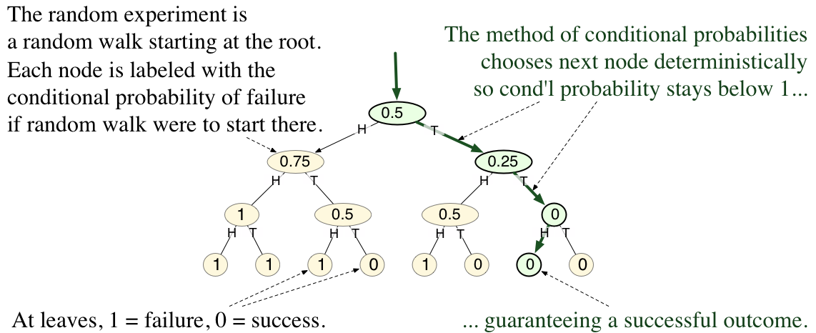 diagram illustrating the method of conditional probabilities